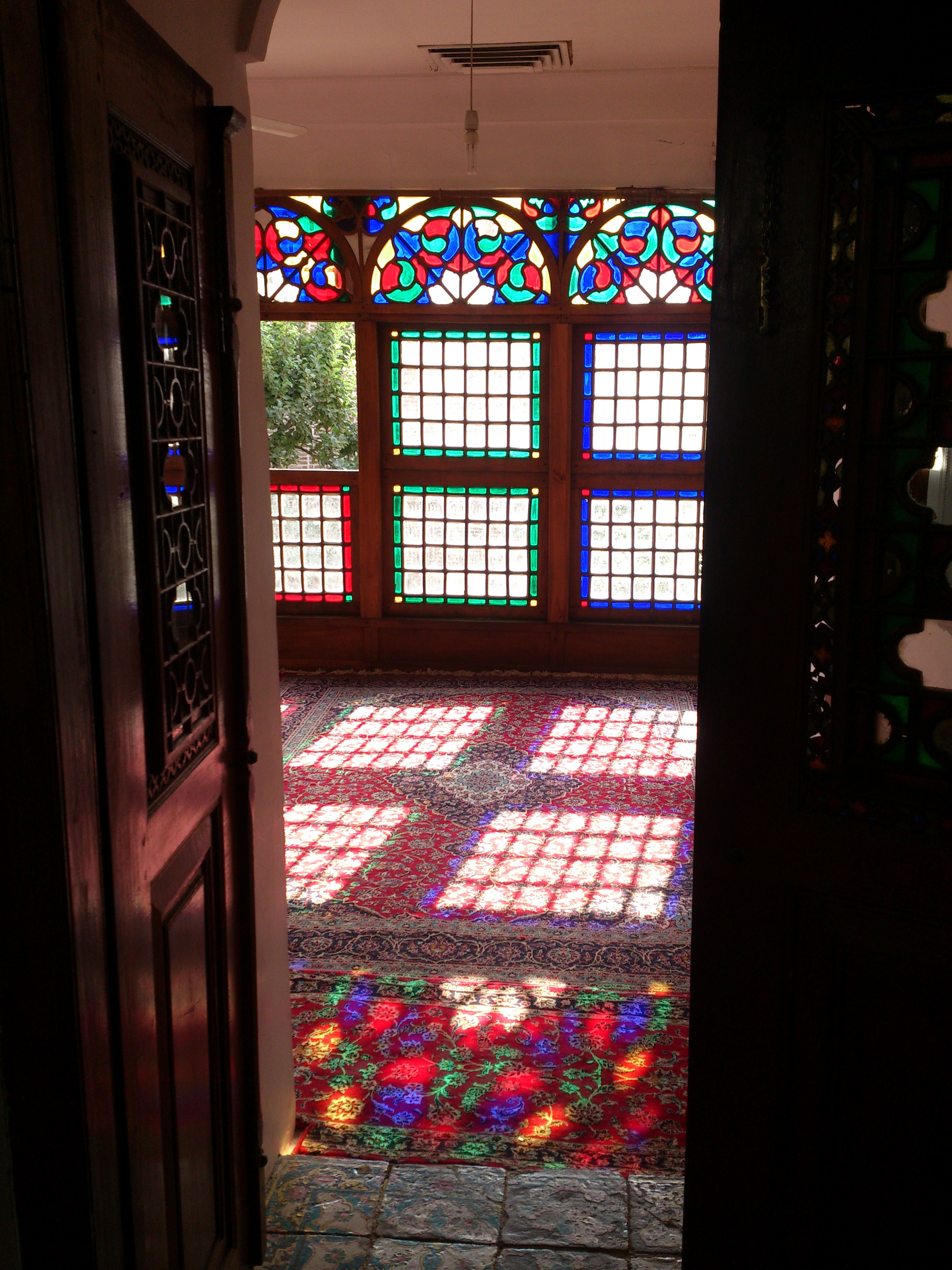 Aminis Historic House (hosseinieh)